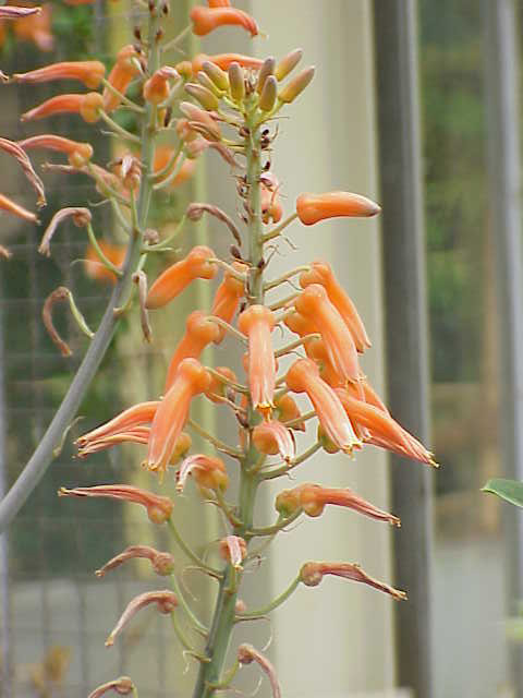 Species: Aloe lateritia Family: Asphodelaceae Image No. 1